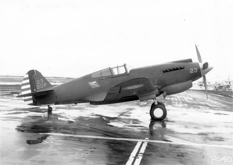 79th Pursuit Squadron, 20th Pursuit Group Curtiss P-40B